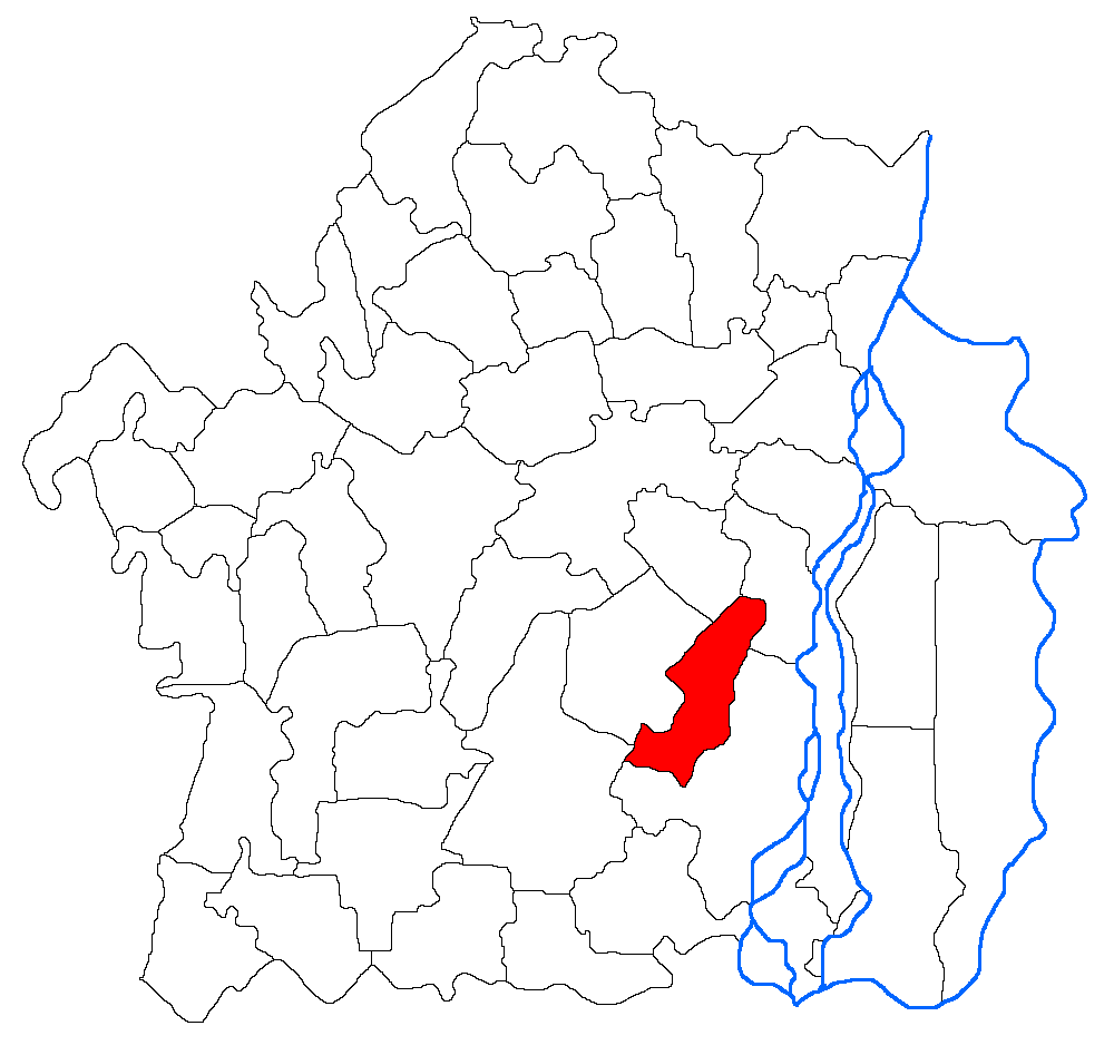 Limits of the commune of Tufeşti in Brăila County, Romania